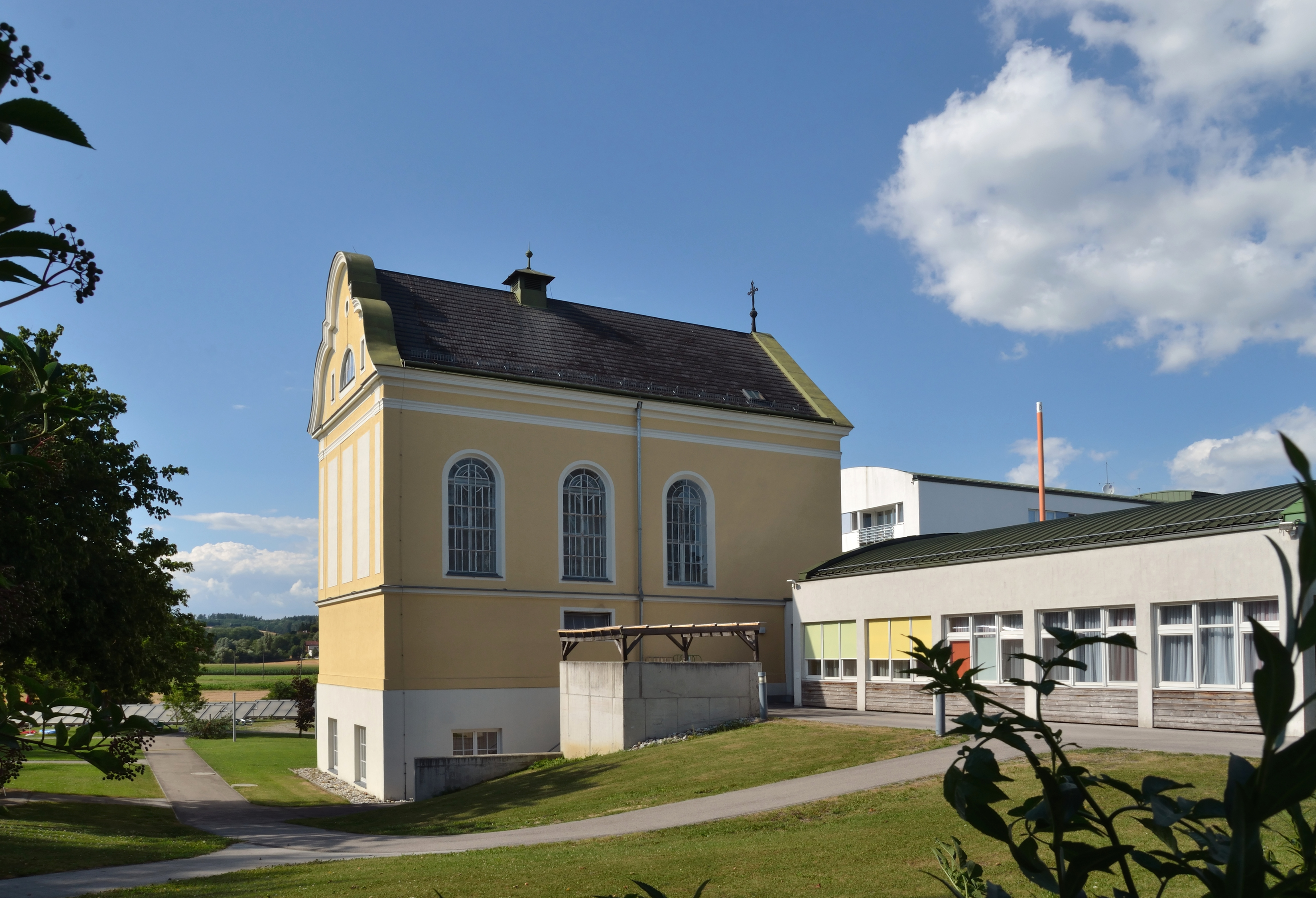 Chapel of nursing home Clementinum, in Paltram, municipality of Kirchstetten, Lower Austria.